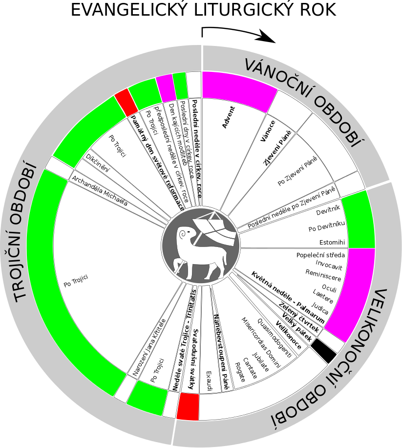 The protestant liturgical year